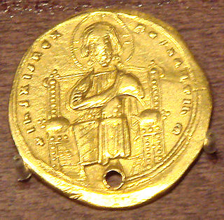 Nomisma Histamenon Of Romanus III, with Christ Seated